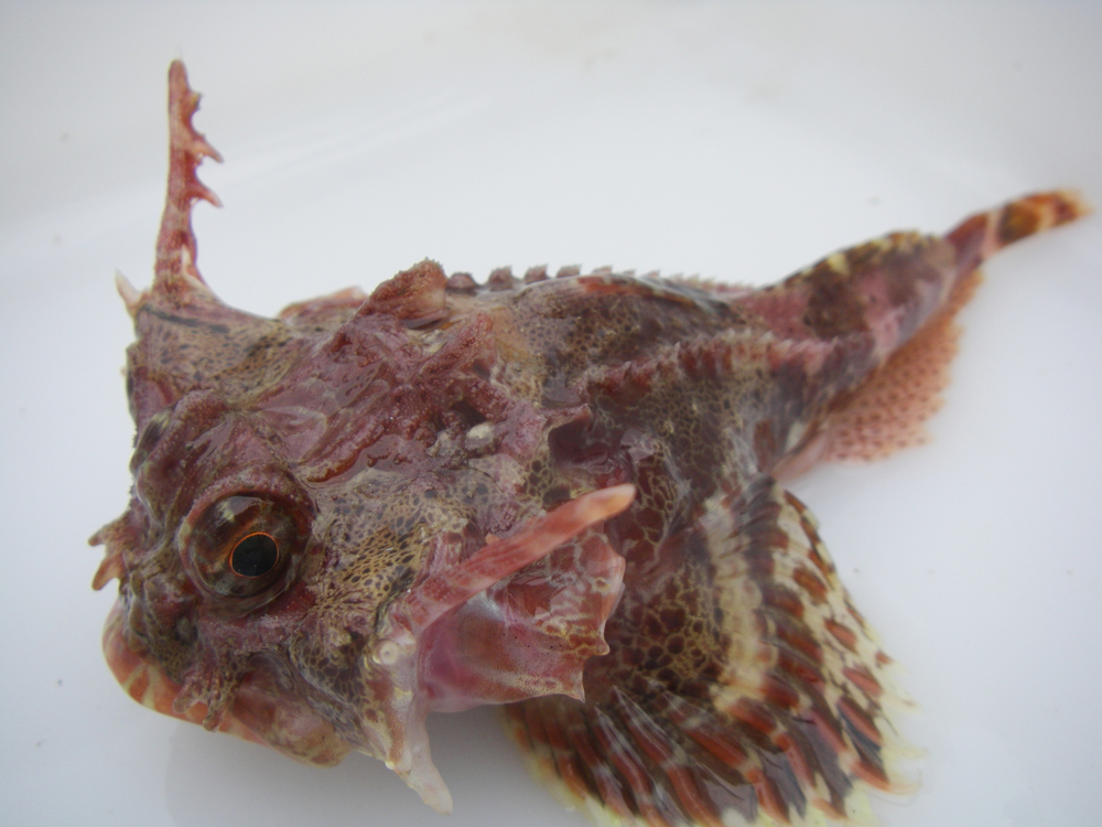 Antlered sculpin (Enophrys diceraus).